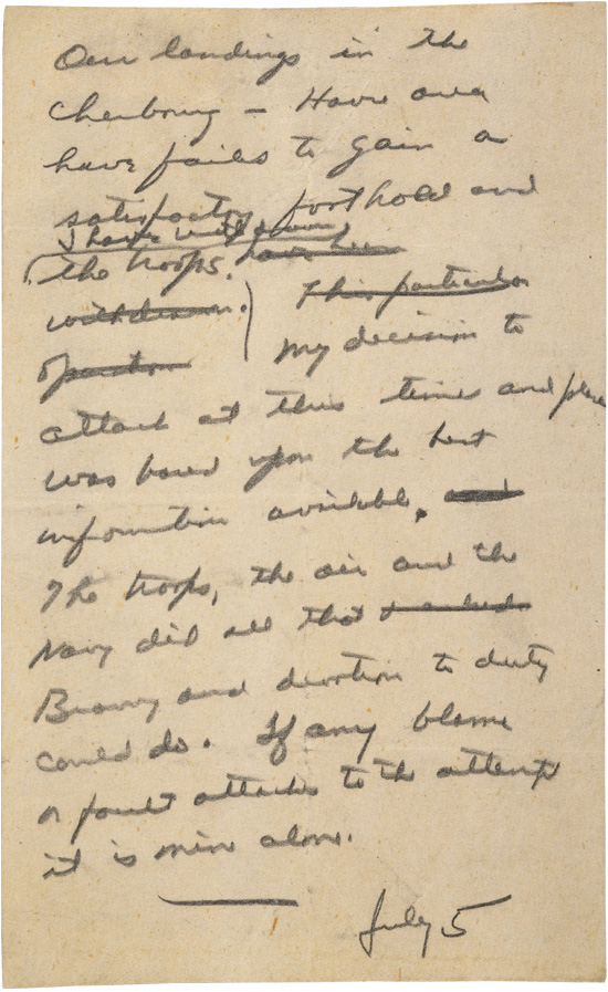 A note, in case of failure, by Gen. Dwight D. Eisenhower, June 5, 1944, but misdated July 5